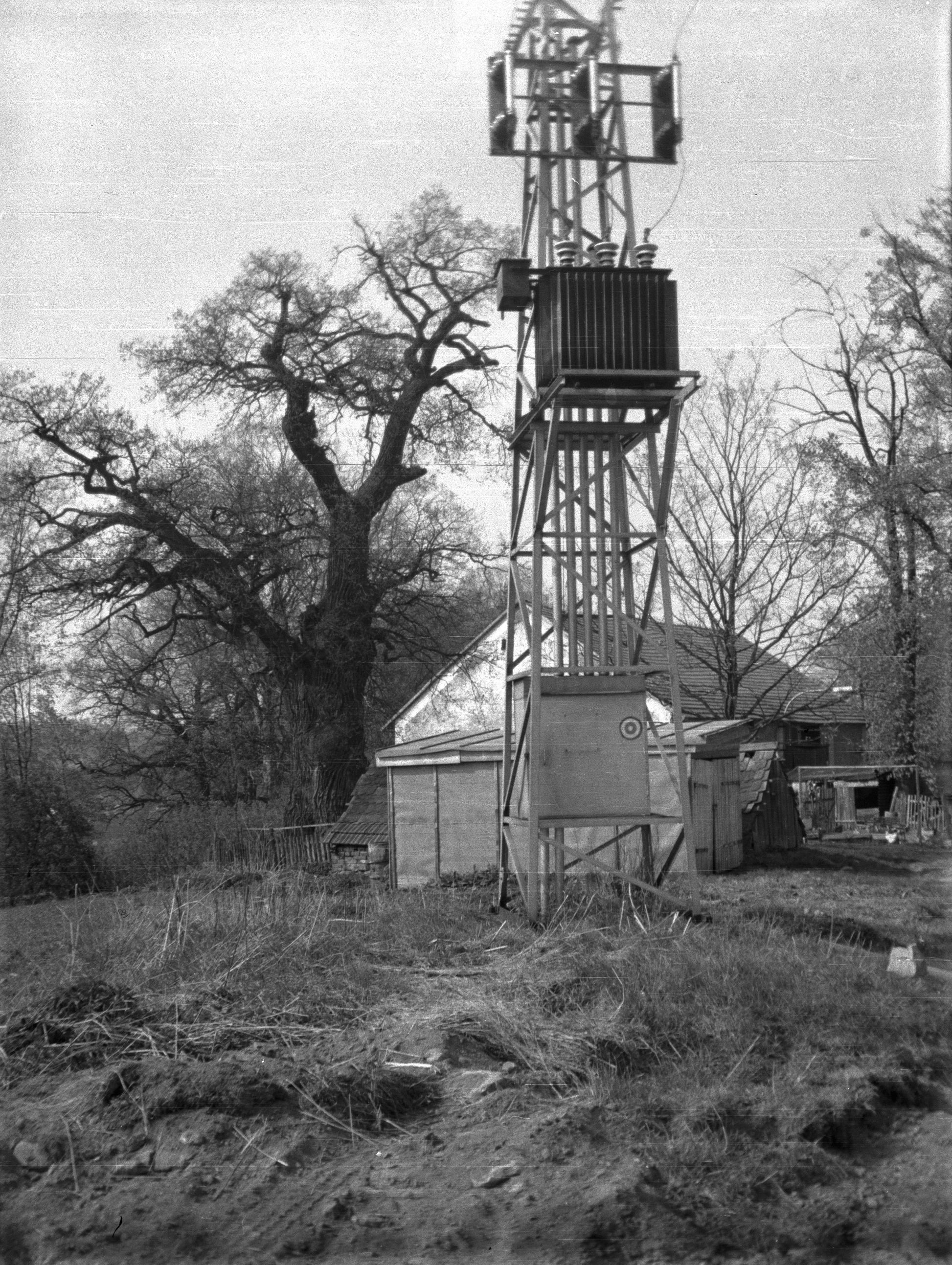 Probably the Žižka's Oak, Mnichovice-Myšlín, Central Bohemian Region, the Czech Republic.